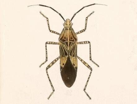 Biologia Centrali-Americana - Hypselonotus punctiventris Cut-out from original (Biologia Centrali-Americana (8272533846).jpg) shown below